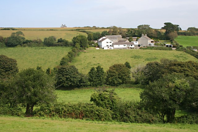 Nanceddan A farmhouse on the valleyside. It looks as if there has been some other development here, holiday apartments possibly.